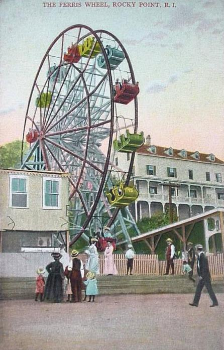 The Ferris Wheel, Rocky Point, Rhode Island; from a 1912 postcard published by S. L. & Co.